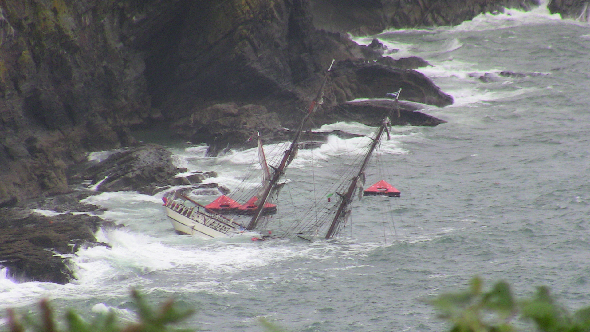 Astrid Brig sinking having lost power and driven onto rocks. All lives saved. Between Kinsale and Oysterhaven near Sovereign Islands